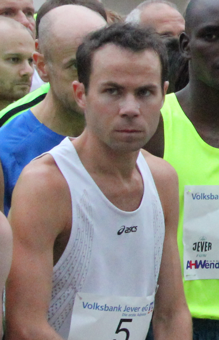 Henri Manninen 2014 in Schortens, Germany